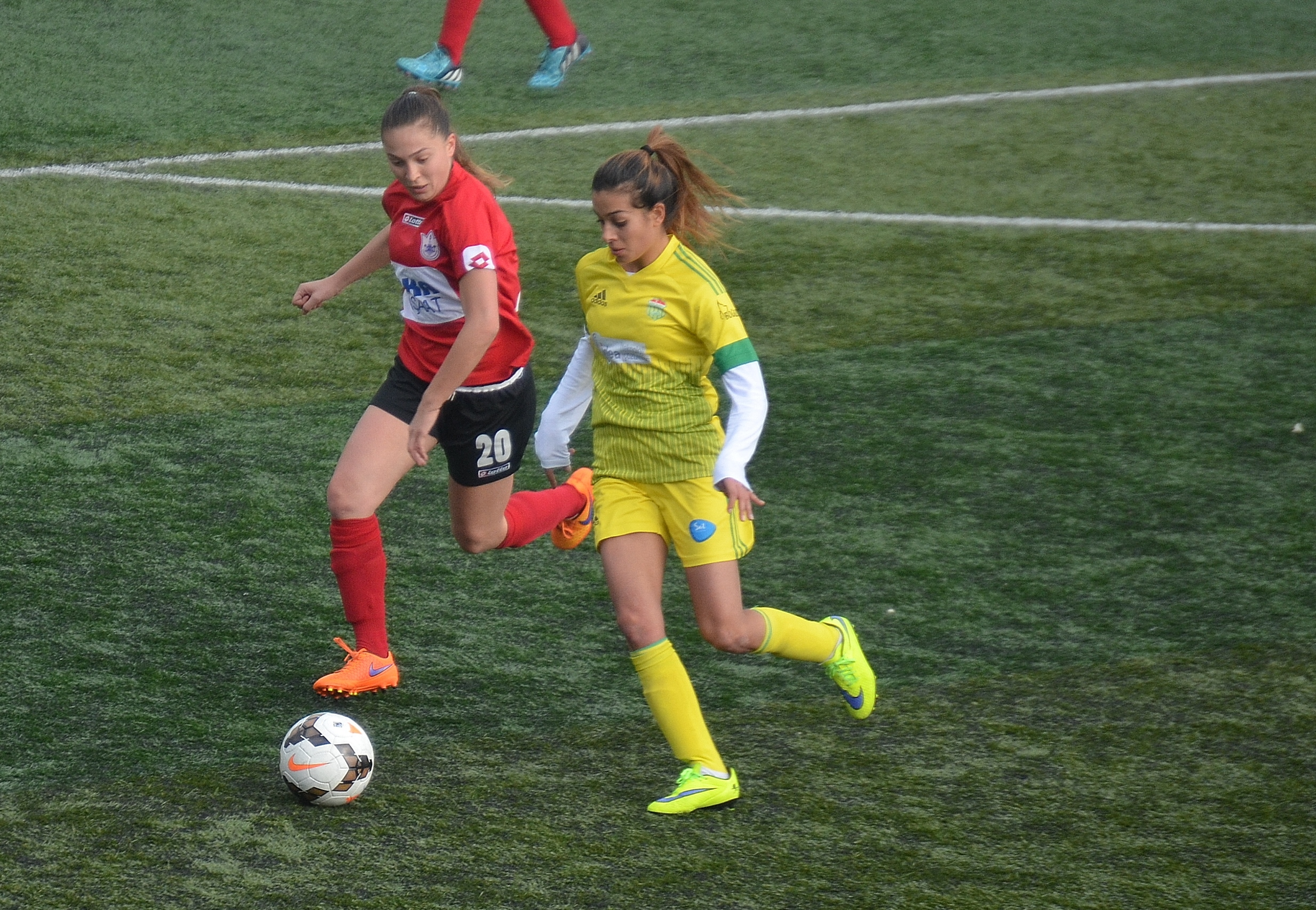 Sevgi Salmanlı (right) of Kireçburnu Spor and Berna Yeniçeri (left) of Konak Belediyespor in the 2015-16 season